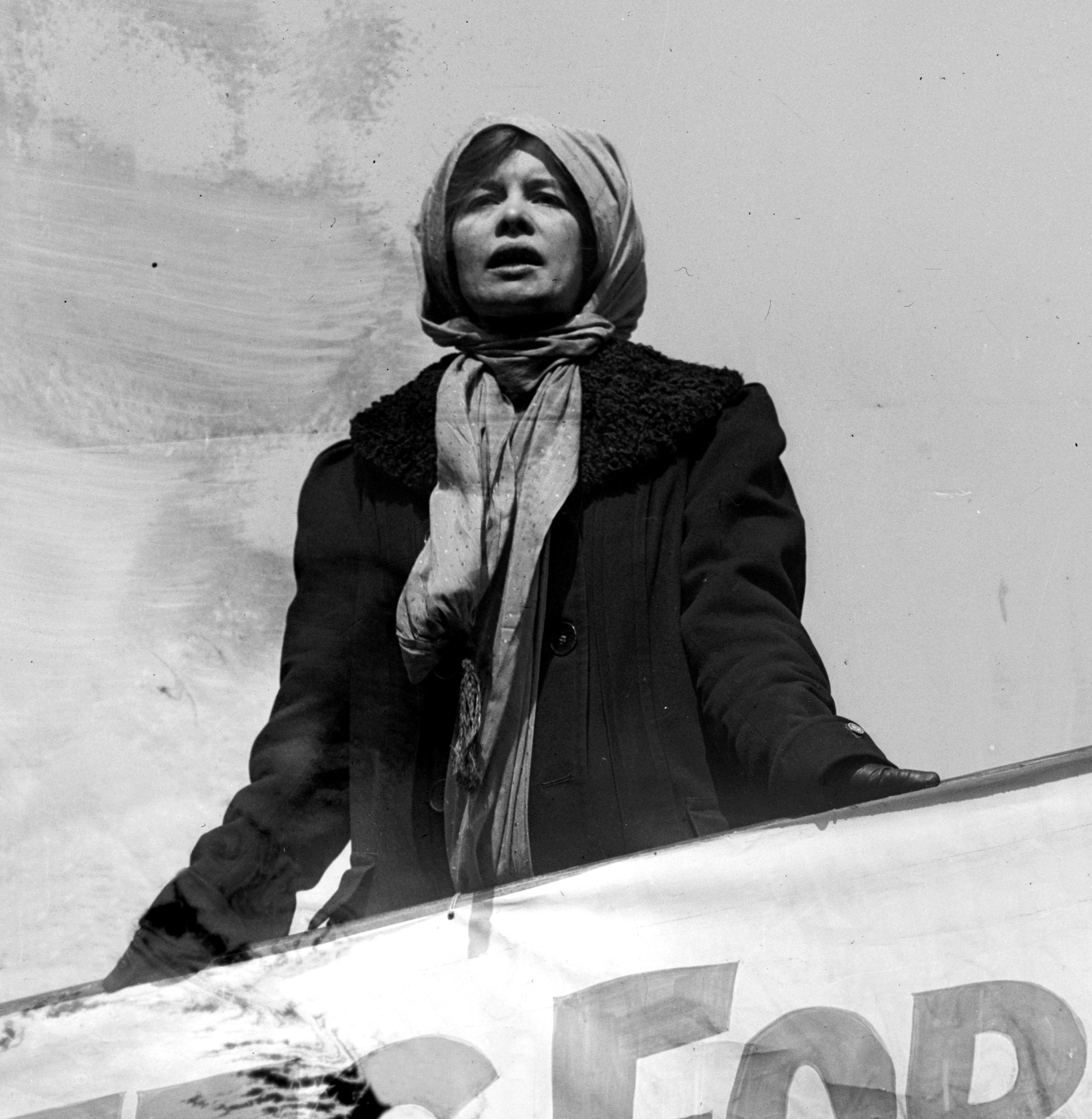 Elizabeth Freeman at a Women's suffrage event in 1913, published by Bain News Service.